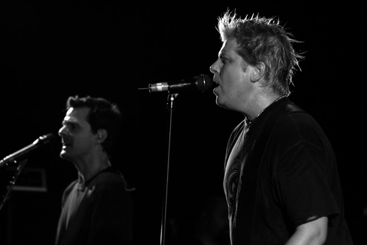 Greg K. (left) and Dexter Holland (right) performing at the St. Augustine Amphitheatre, St. Augustine, FL, USA on the 17th of July 2009.